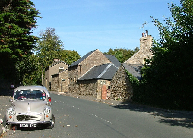 Abraham Heights Farm, Lancaster. This farm, in Westbourne Road Lancaster, is now surrounded by a housing development.